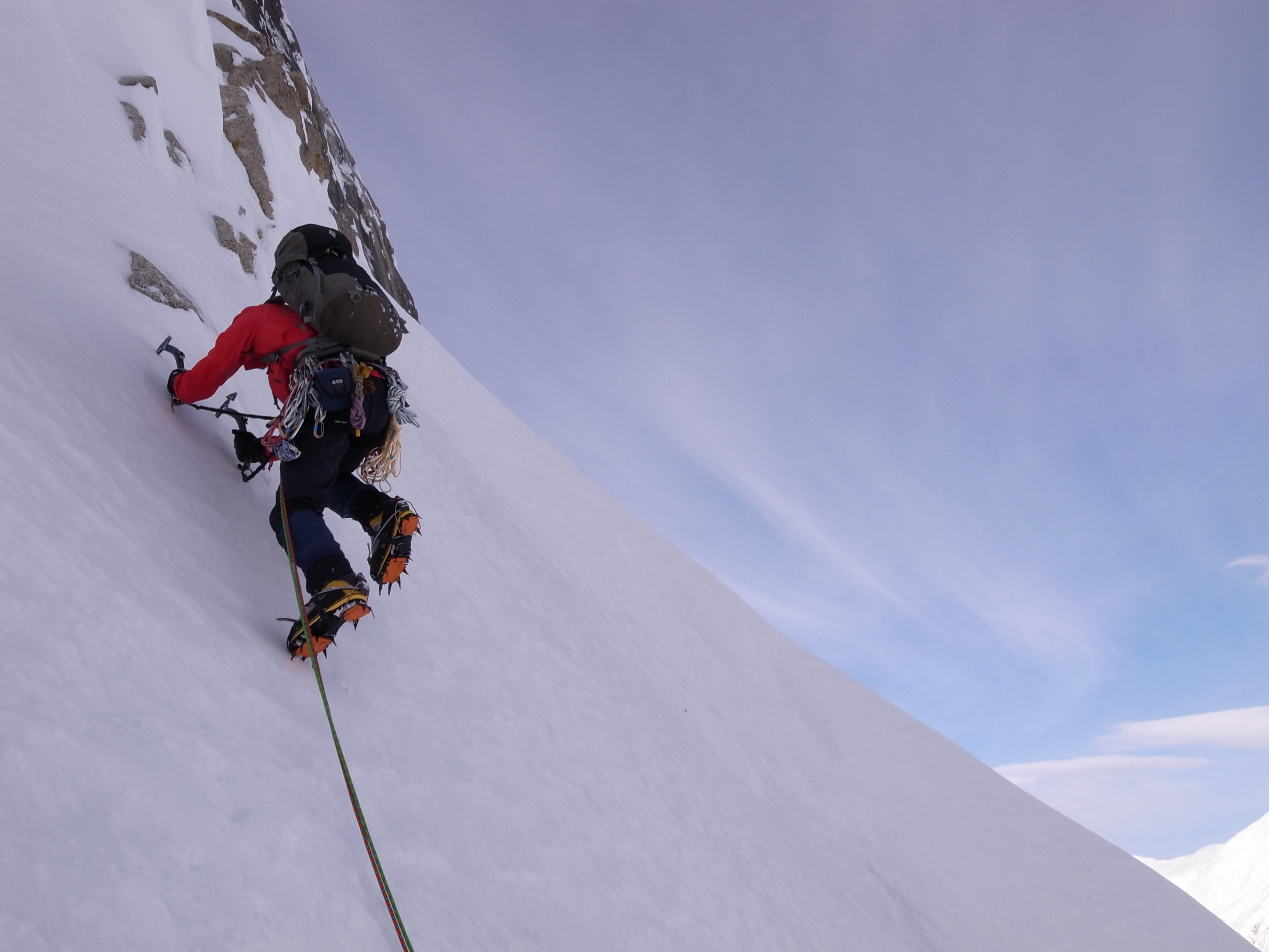 Jim Broomhead climbing the Moonflower Buttress of Mt. Hunter in Alaska. Photo by: Kristoffer Szilas